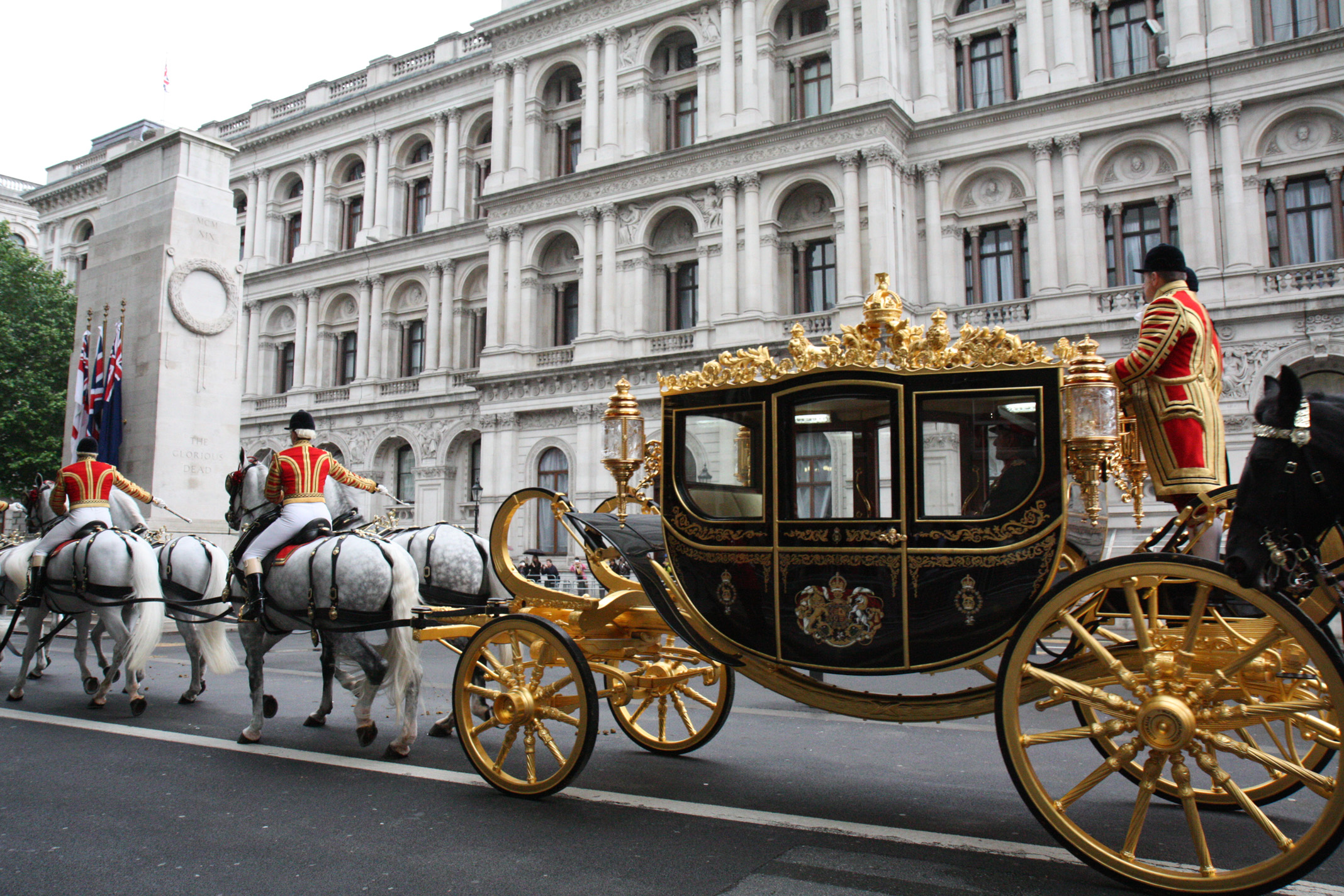 H.M. The Queen passes the Foreign & Commonwealth Office in a State coach to the Palace of Westminster for the State Opening of Parliament, 4 June 2014.